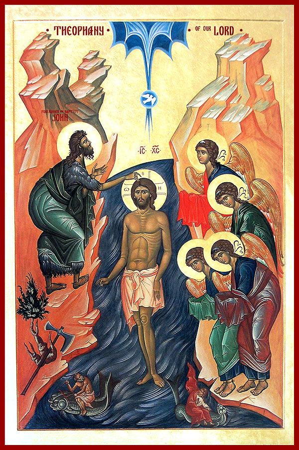 An ancient icon showing baptism of christ.